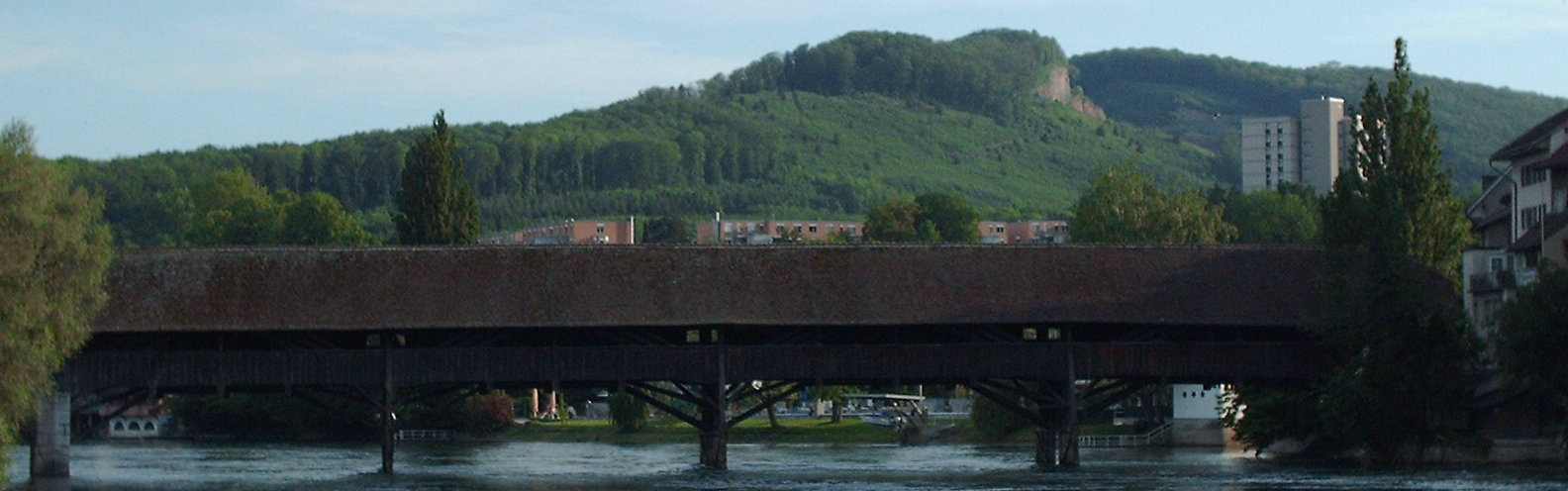 Olten, Switzerland covered wooden bridge over the Aar river (built 1803)